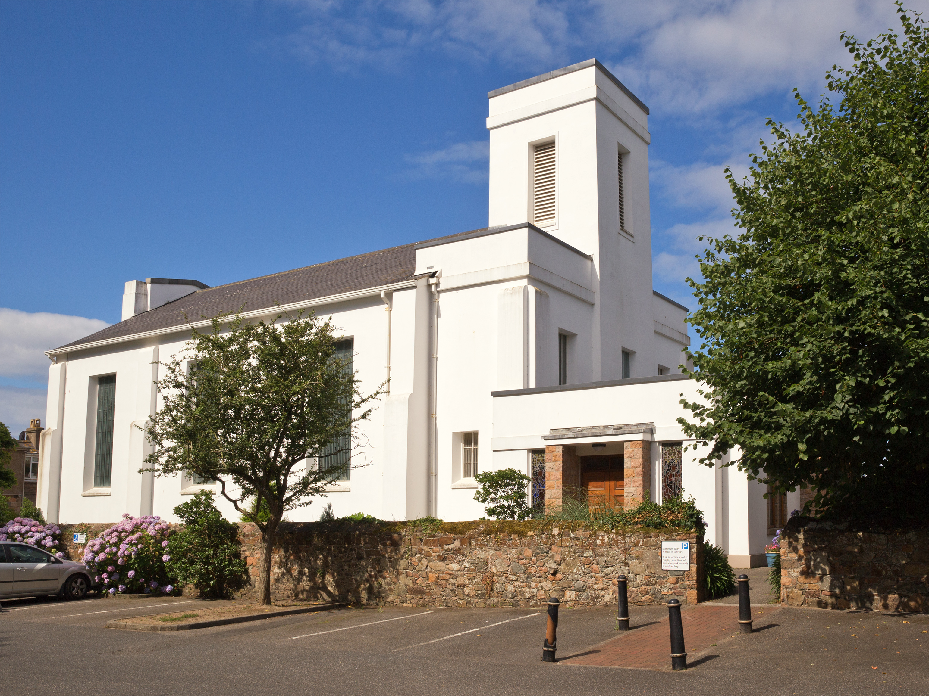 Saint Matthew's Glass Church, Island of Jersey